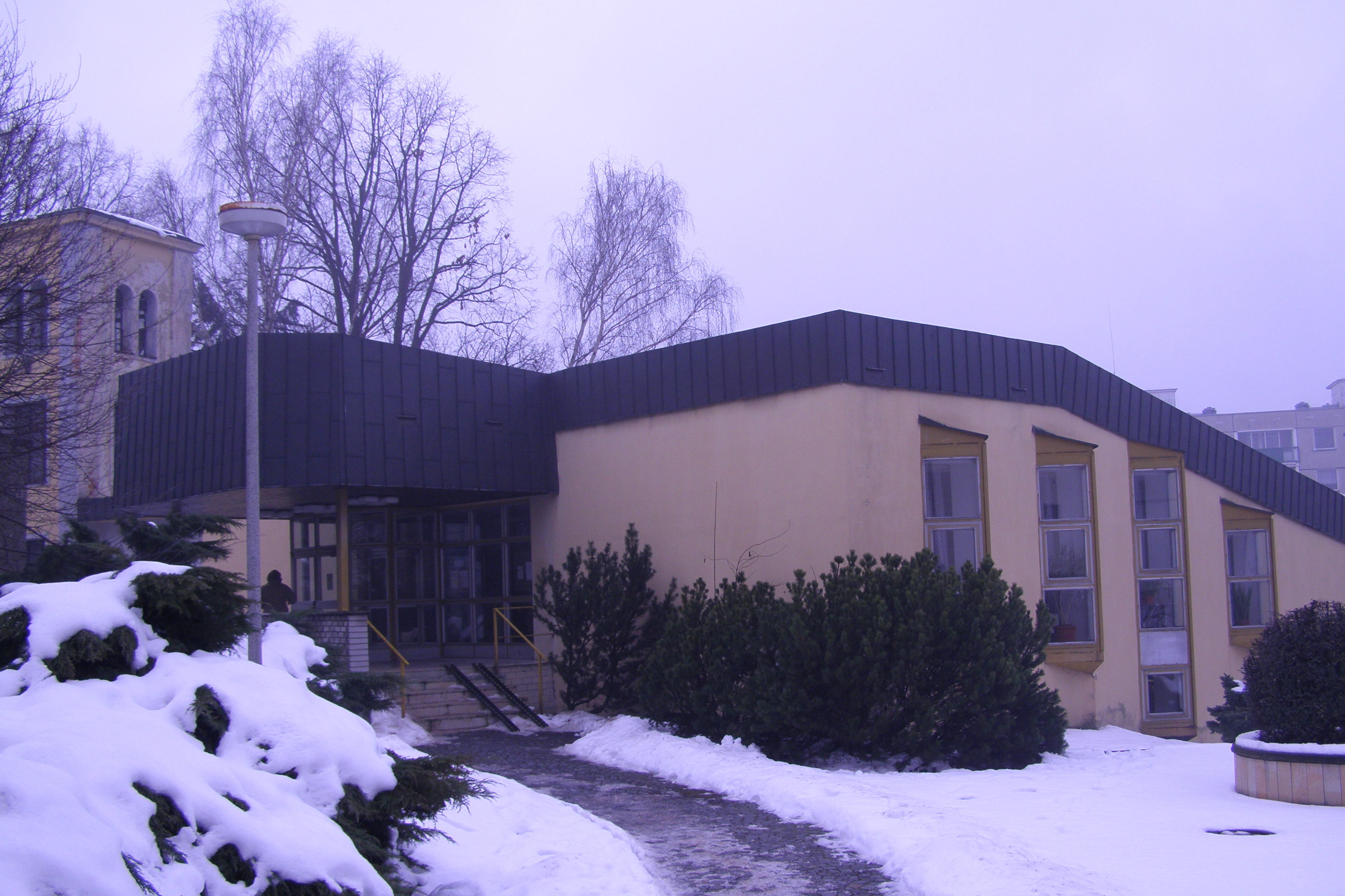 Městská knihovna Ústí nad Orlicí v zimě 2009